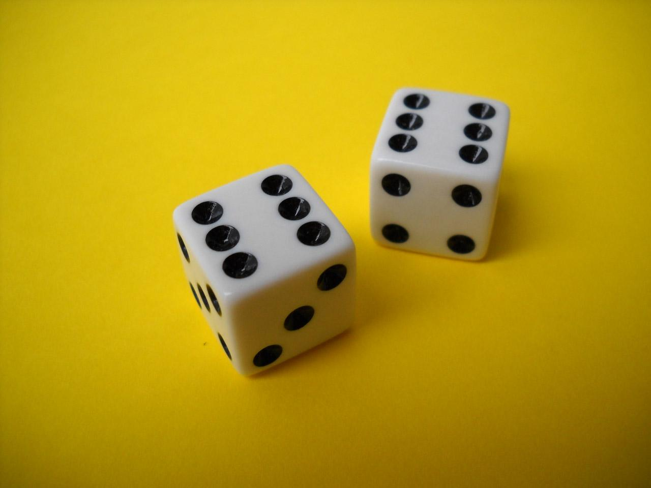 Two dice, showing two sixes.